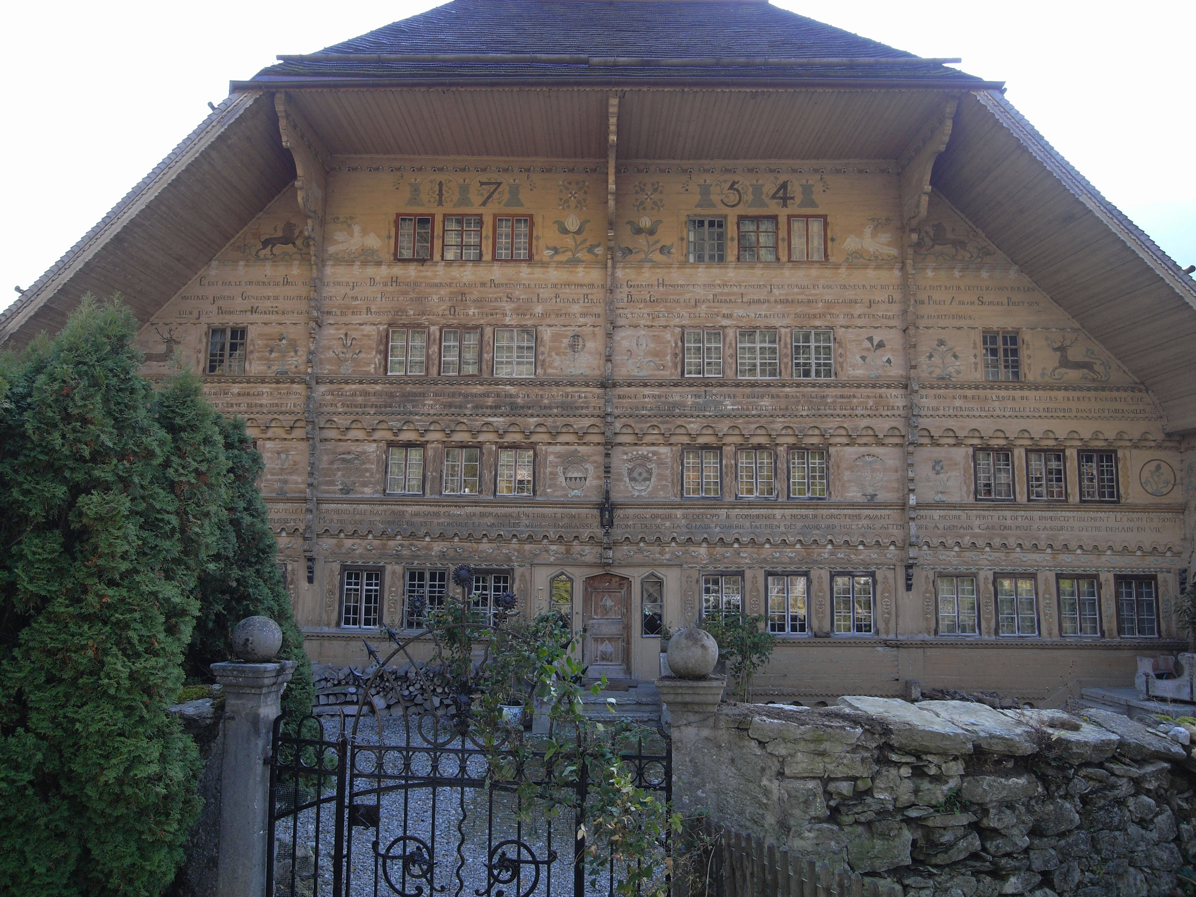 Balthus Fundation - Rossiniere